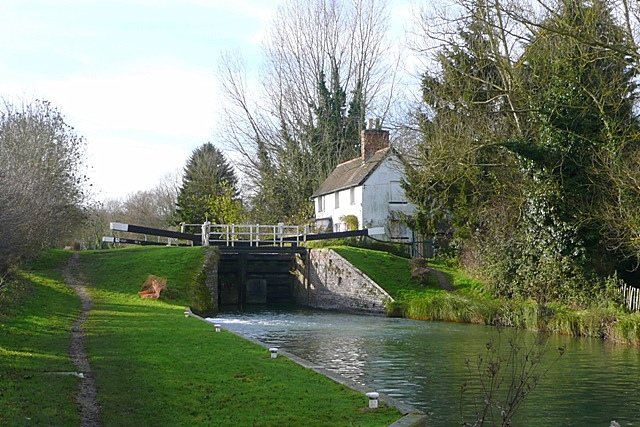 Cobbler's Lock Lock 72 on the Kennet and Avon Canal. All the books are remarkably quiet about how this lock got its name, but it certainly used not to have the snigger value that mentioning its name provokes today. The lock cottage is now a private residence and the lock is to be left empty because otherwise their cellar has a flooding problem.